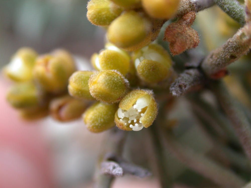 Cassytha pubescens flower